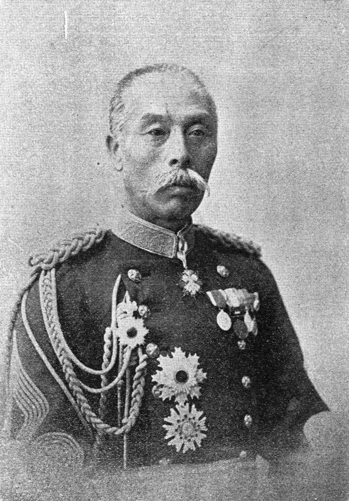 General Baron Kuroda Hisataka, Chief Military Attendant of the Crown Prince.